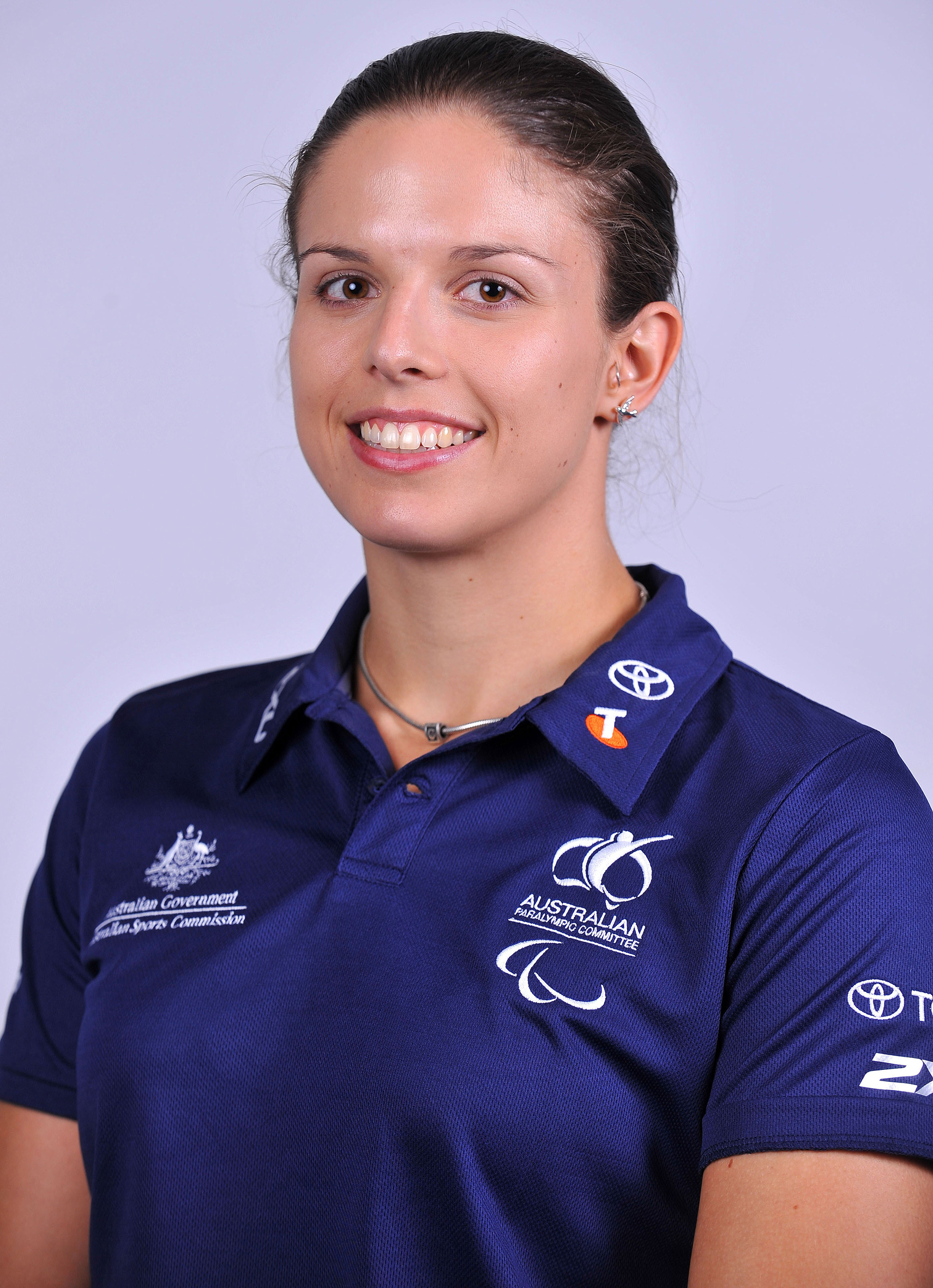 Portrait of Australian wheelchair basketballer Clare Nott, 2012 Australian Paralympic (shadow) Team athlete